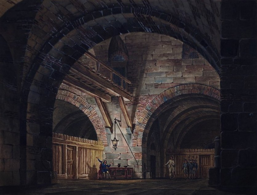 Set design by Alessandro Sanquirico for the opera "Elisa e Claudio" by Saverio Mercadante, from a libretto by Luigi Romanelli and created at La Scala in Milan on 30 October 1821. Aquatint engraving with original hand color, after a drawing by Alessandro Sanquirico.